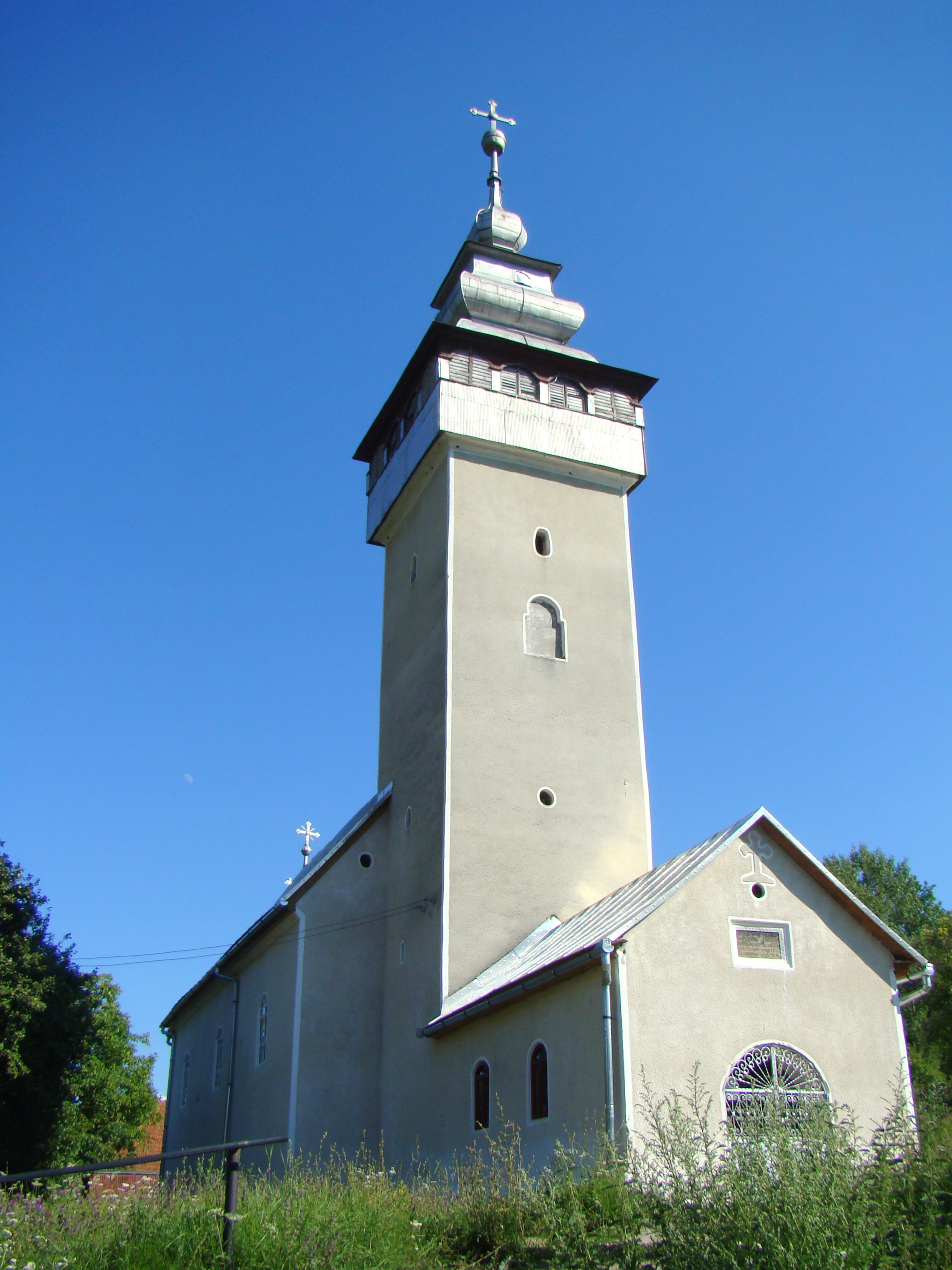 Church of the Transfiguration in Almașu Mare, Alba county, Romania